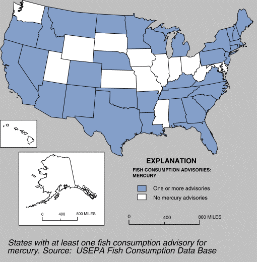 Mercury in fish consumption warnings.